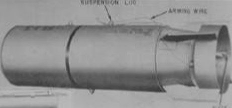 The M34 series sarin cluster bomb was the first major nerve agent bomb standardized (mass-produced) by the U.S. military after World War II.